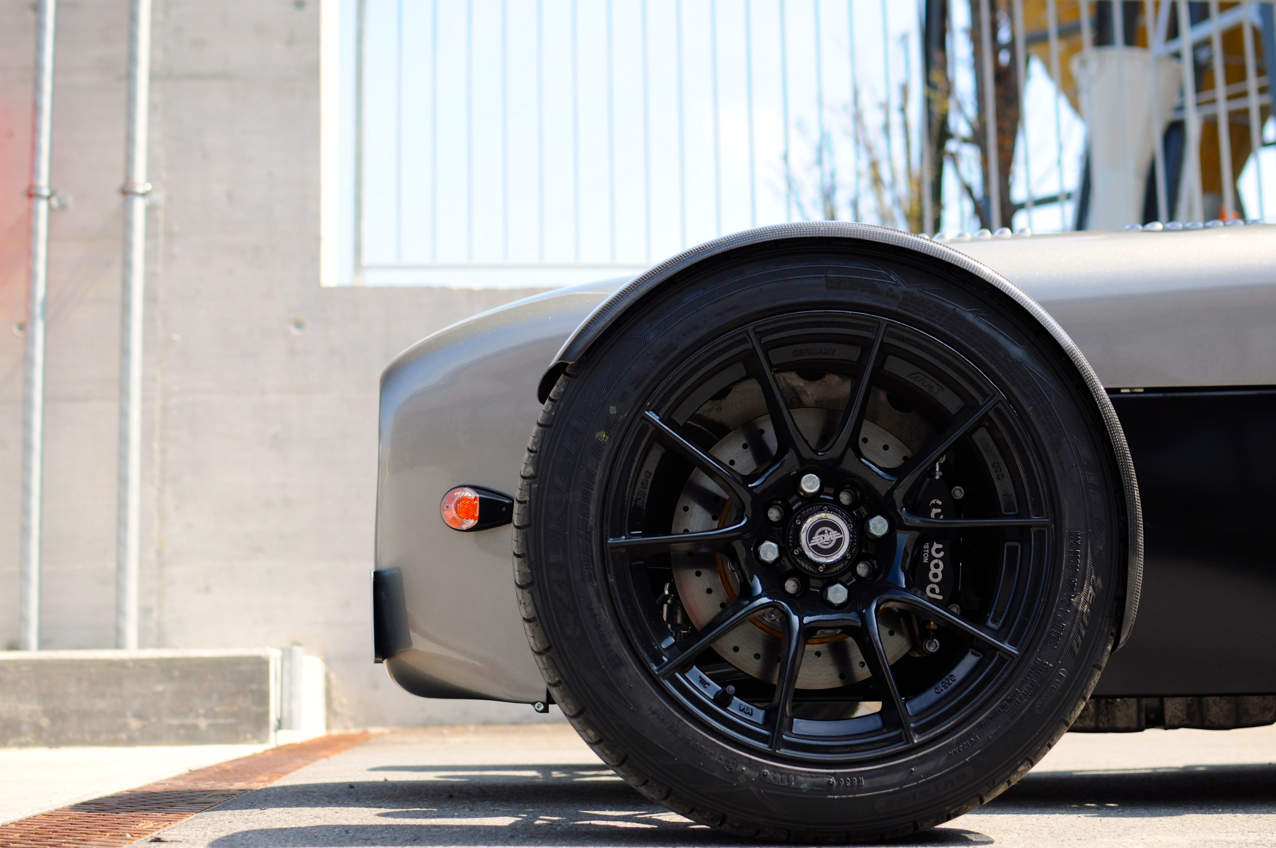 Frontweel of HKT GTS (Super Seven)